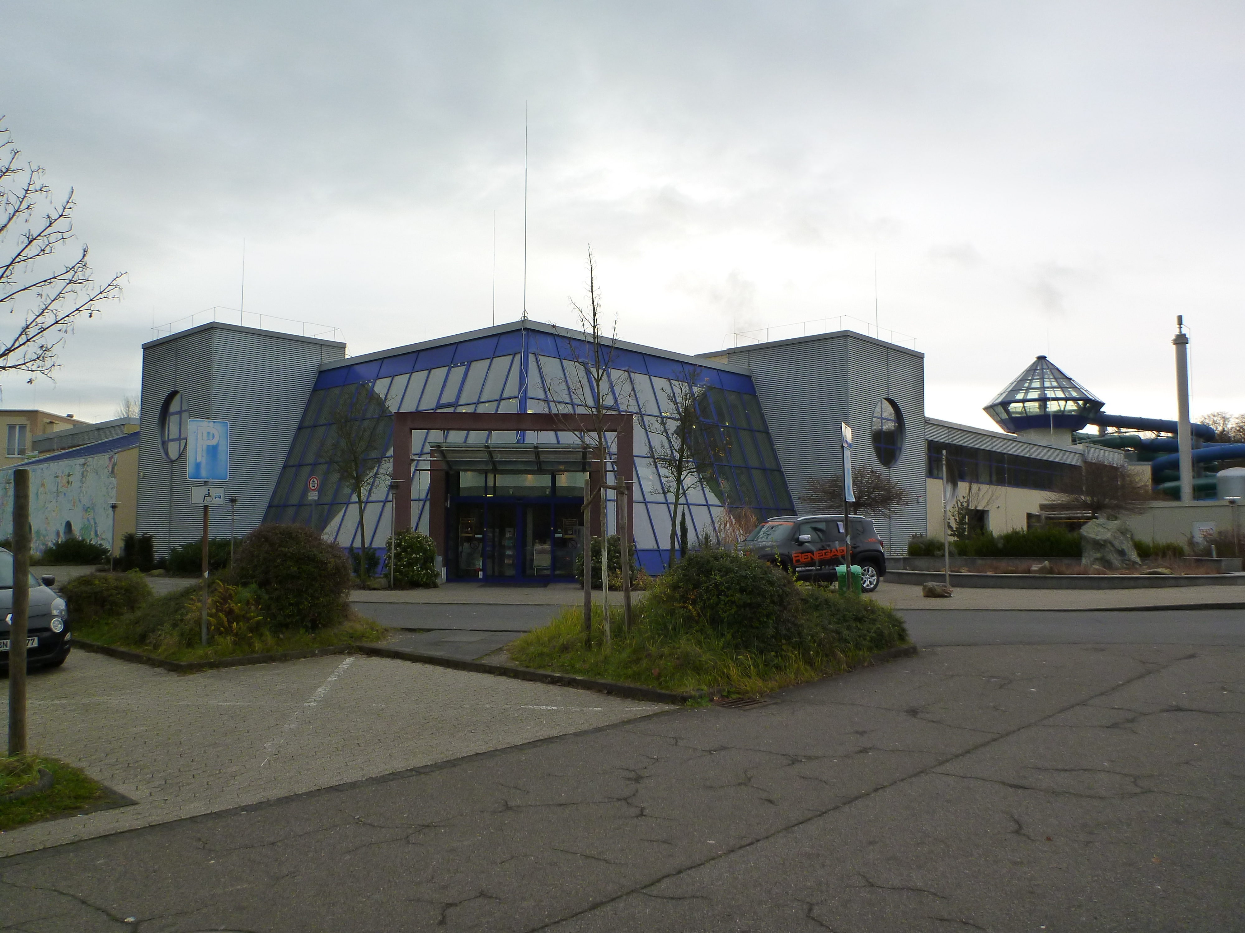 Monte Mare water park in Rheinbach near Bonn outside view